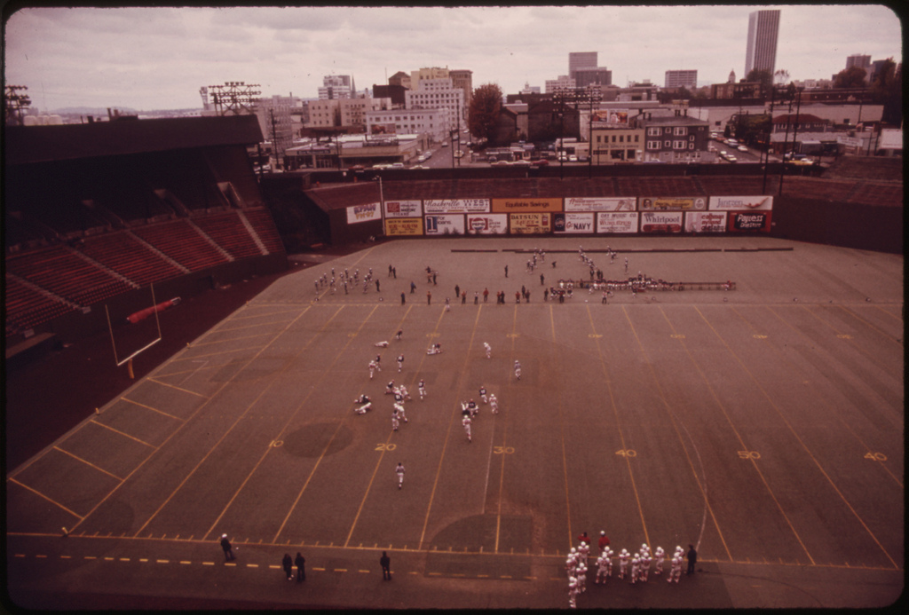 Portland High Schools playing daytime football at Multnomah Stadium to conserve electricity, October 1973. Photo courtesy of The U.S. National Archives, via Flickr.